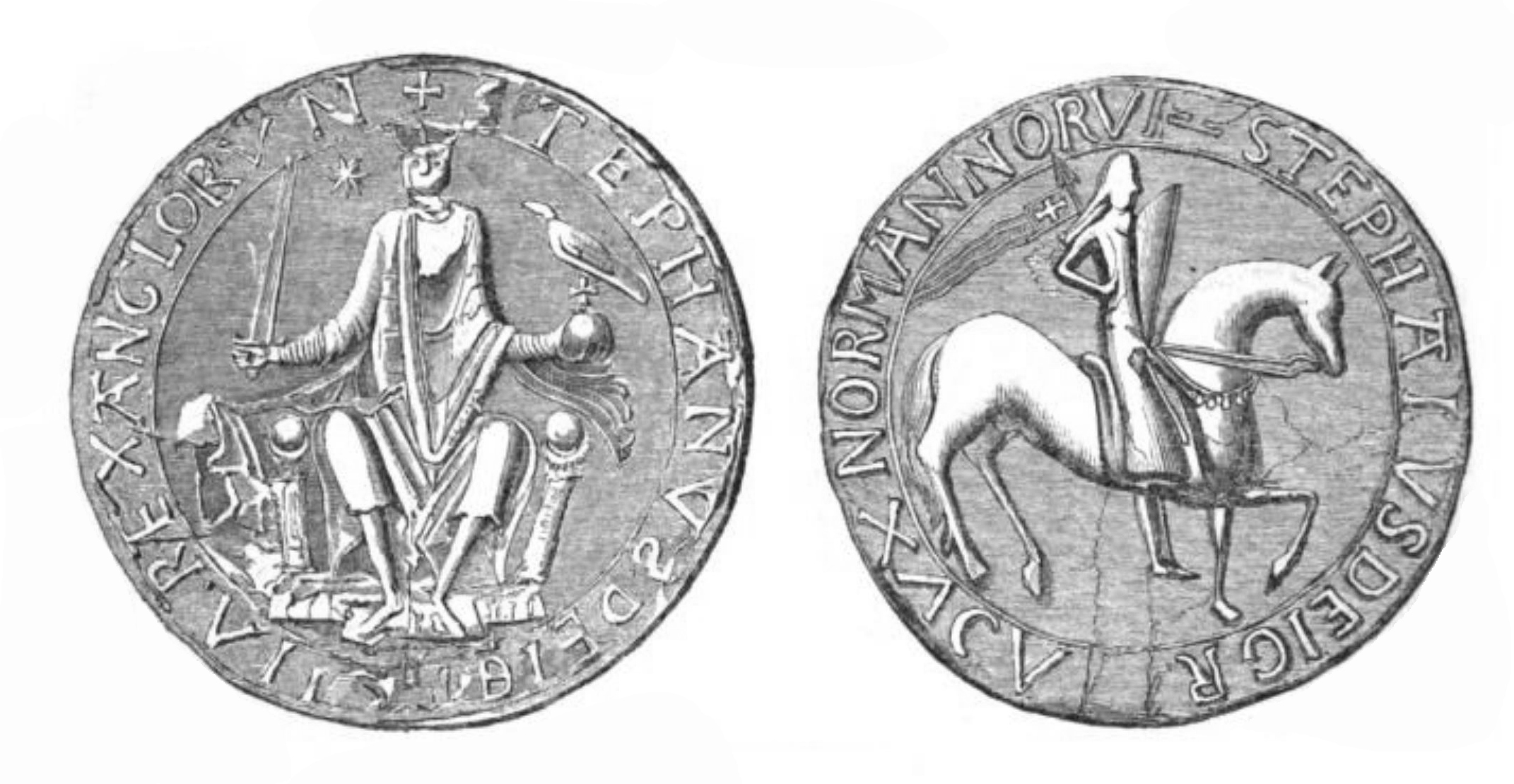 Great Seal of Stephen, King of England (1135-1154) from 'The pictorial history of England', by George Lillie Craik and al., published by Harper & Brothers, 1846.